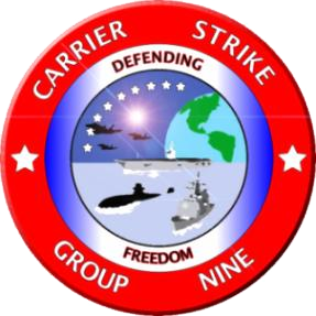 Carrier Strike Group 9 command emblem.